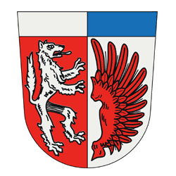 Coat of Arms of Oerlenbach